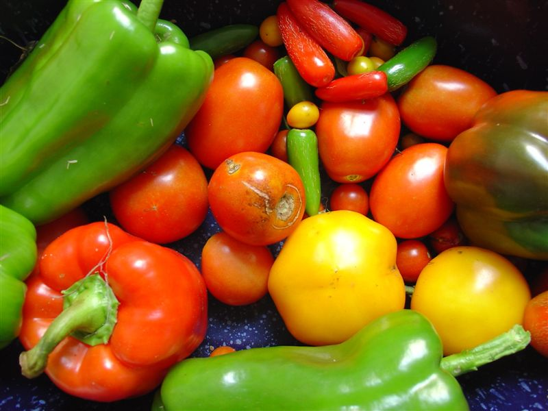 food from own garden